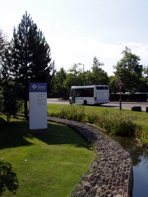 Entrance to Java House, Sun Microsystems Entrance to Java House, Sun Microsystems, Guillemont Park which features a moat stocked with carp between the car park and the buildings.